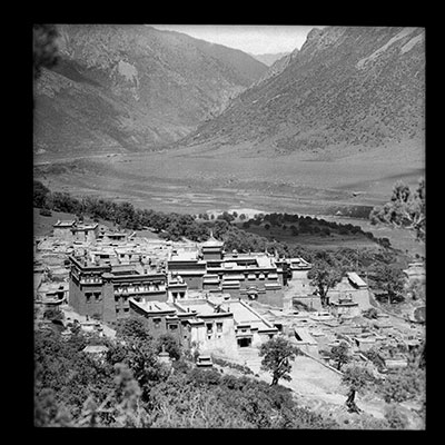 Reting (rwa sgreng) monastery in the stoney valley of the Reting rongchu (rwa sgreng rong chu) river seen from above. The main temple and assembly hall are in the centre of the complex topped by a gilded roof.